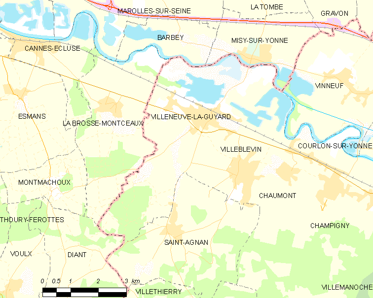 Map of French municipality Villeneuve-la-Guyard